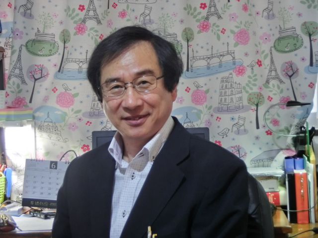 Burning passion is being continued to the present data analysis of Chinese agriculture and a foods problem.